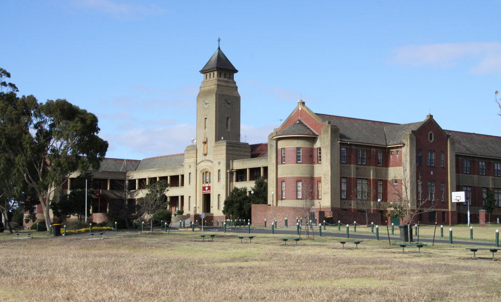 Christian College, Geelong campus off Burdekin Road, Highton. Former St. Augustine's Orphanage.